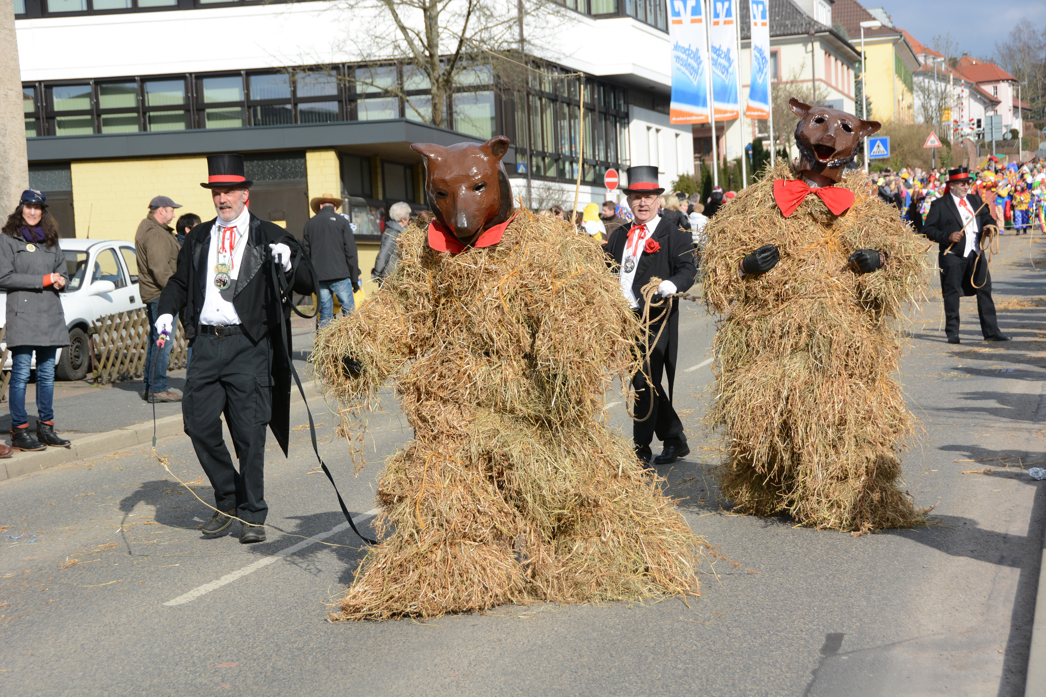 Straw bear (German traditional character),carnival in Buchen (Odenwald), Germany